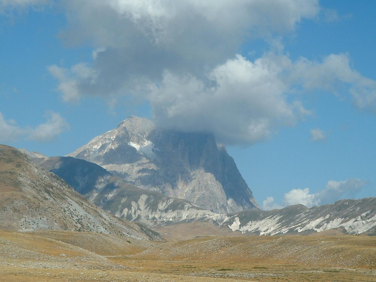 Gran Sasso in Coulds